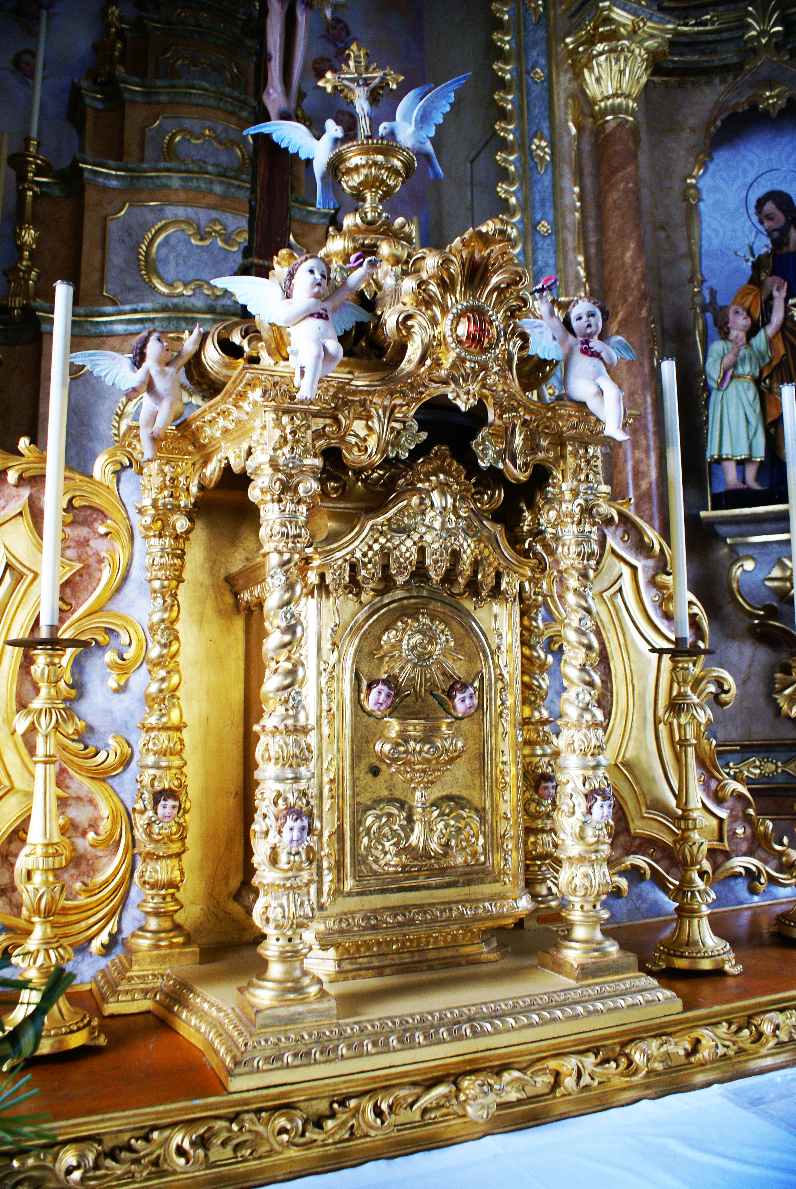 Igreja de Santa Cruz das Ribeiras, Sacrário, concelho das Lajes do Pico, ilha do Pico, Açores, Portugal